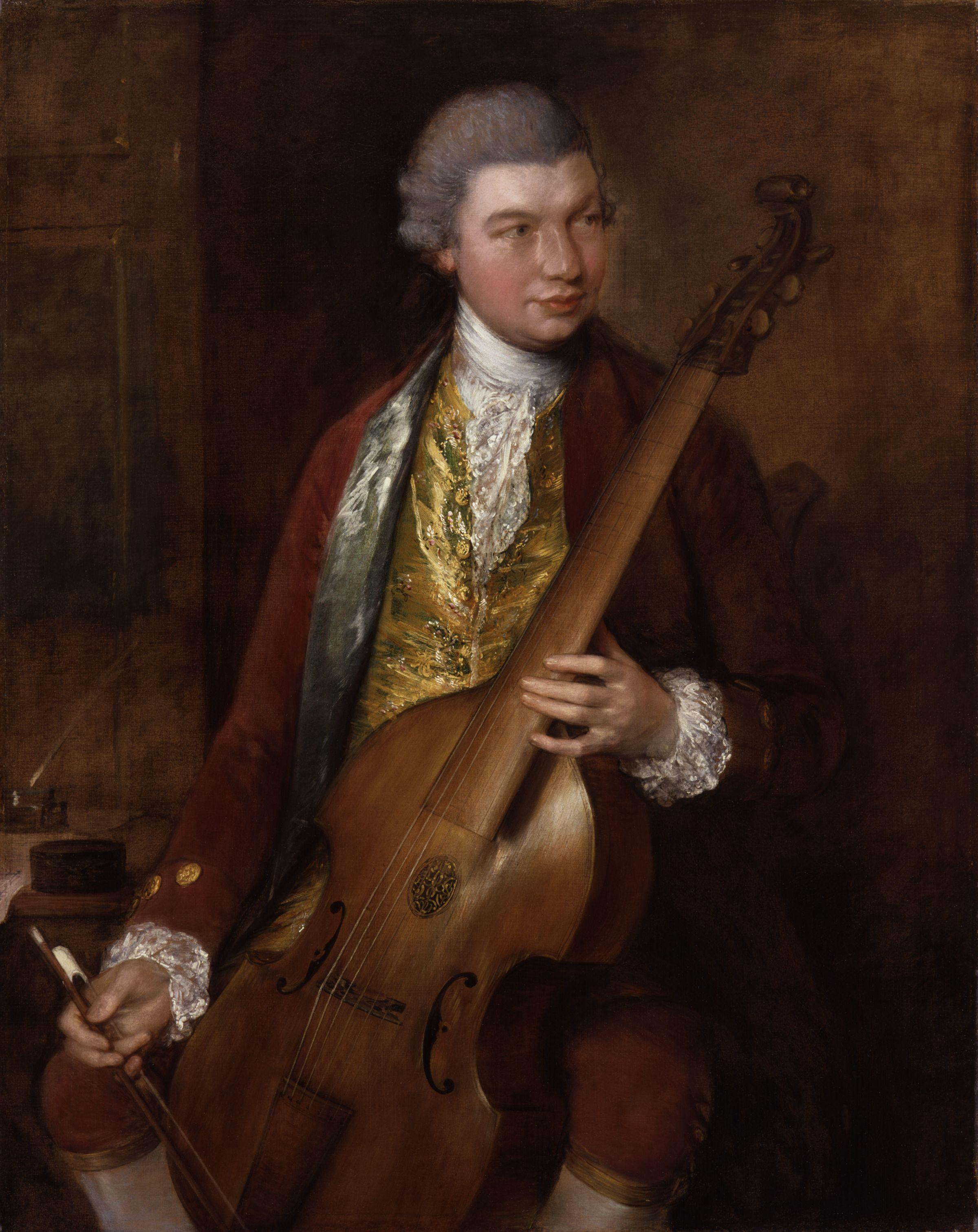 Carl Friedrich Abel was a German composer of the Classical era. (The Chambers Biographical Dictionary gives his year of birth as 1725.)[1] He was a fine player on the viola da gamba, and composed important music for that instrument.